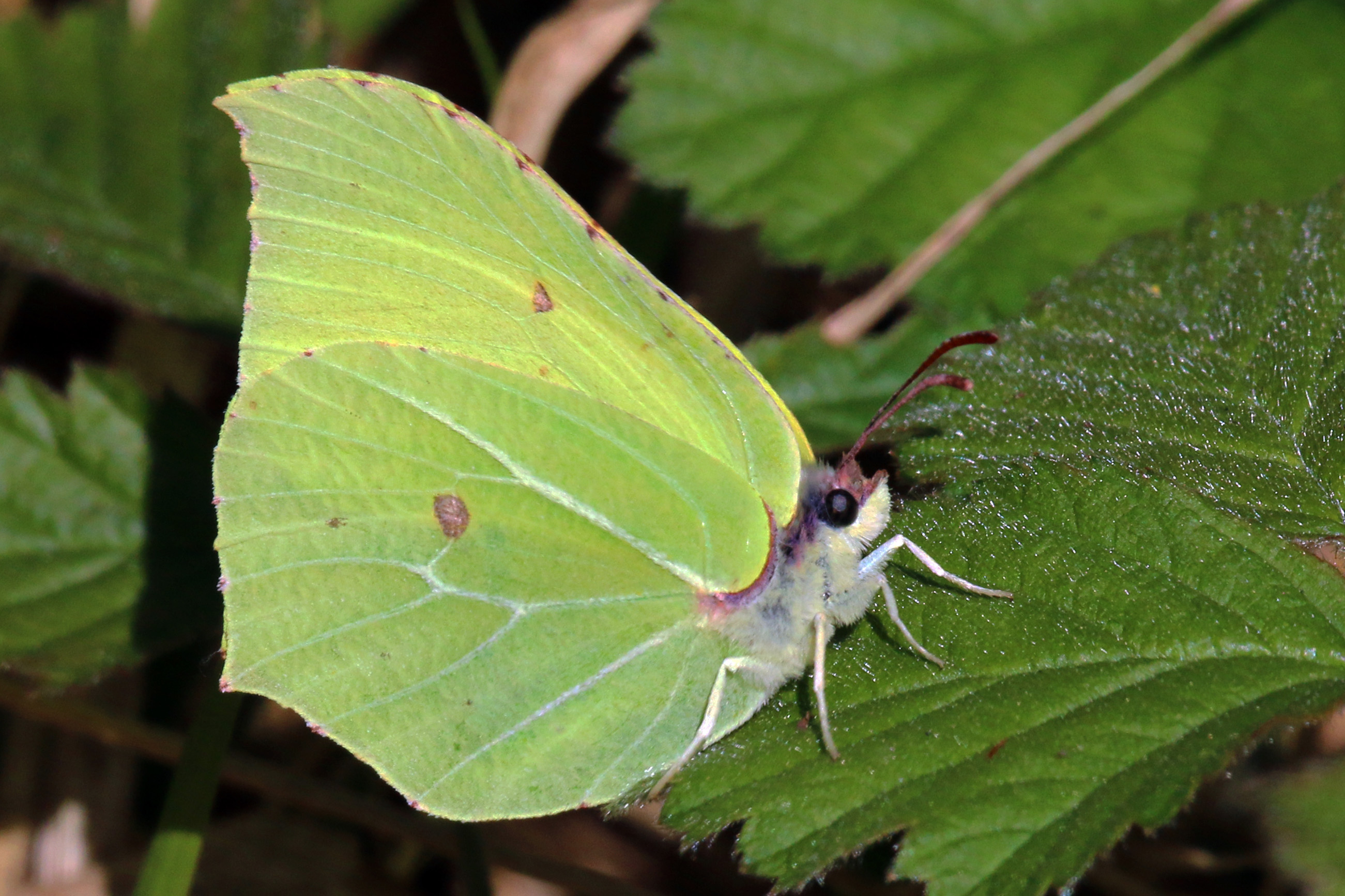 Common Brimstone butterfly (Gonepteryx rhamni), Wytham Woods, Oxfordshire